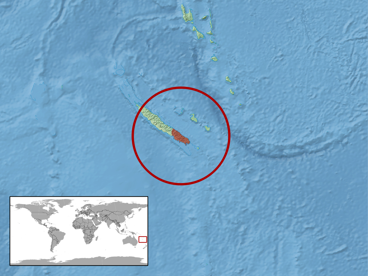 geographic distribution of Sigaloseps deplanchei